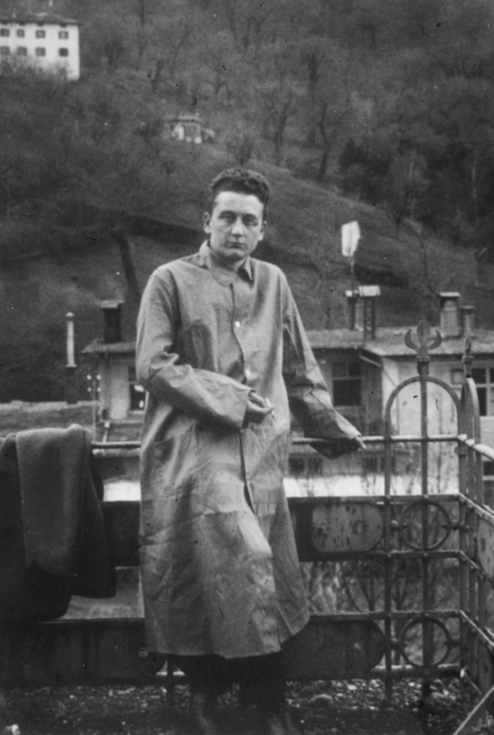 Description: Szent-Gyorgyi spent the last year of World War I as an army physician in northern Italy. This photograph was used in a lecture entitled "Albert Szent-Gyorgyi; Scientist and Humanist" given by Andrew G. Szent-Gyorgyi at Marosvasarhely, Hungary on April 23, 1999. Number of Image Pages: 1 (109,781 Bytes) Date Supplied: 1917 Creator: Unknown Rights: Courtesy of Andrew G. Szent-Gyorgyi. The National Library of Medicine's Profiles in Science program has made every effort to secure proper permissions for posting items on the web site. In this instance, however, it has either not been possible to identify or contact the current copyright owner. If you have information regarding the copyright owner, please contact us at . Exhibit Categories: Biographical Information Searching for a Scientific Home, 1919-1930 Unique Identifier: WGBBBC Document Type: Photographic prints Format: image/jpeg image/tif Physical Condition: Good Metadata Last Modified Date: 2005-05-18